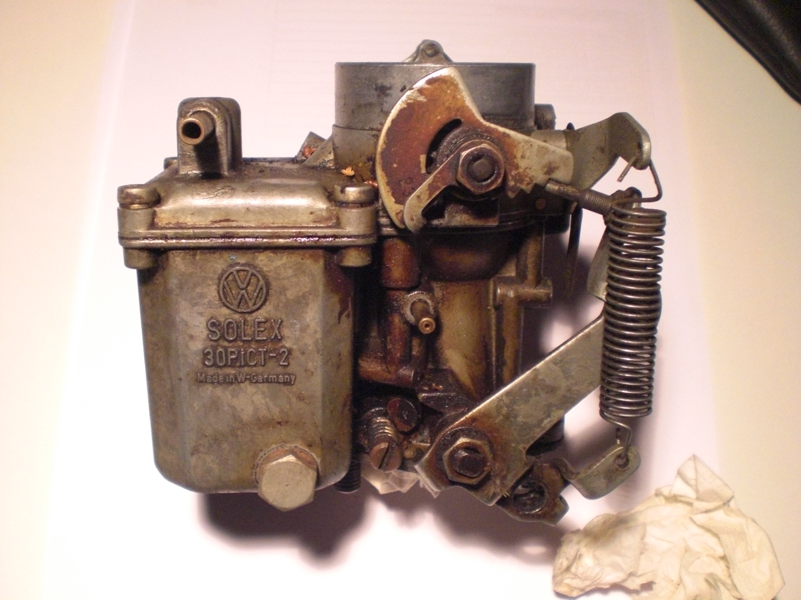 SOLEX carburetor 30 PICT-2 with automatic choke in maximum position